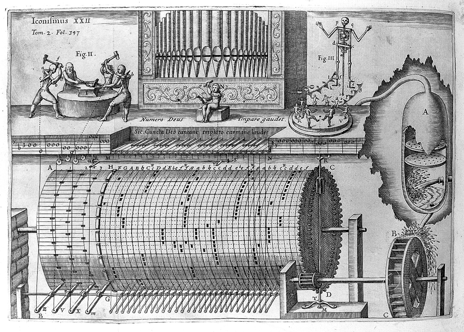 Hydraulic organ: forge. Rare Books